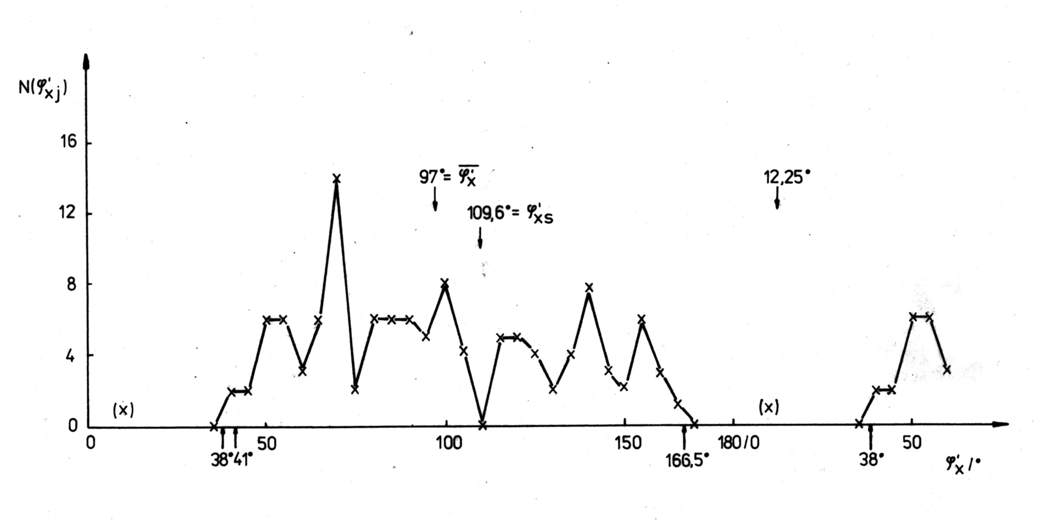 Direct measurement of the azimutal distribution of glide traces in a replica of an austenitic steel specimen after alternated bending with the TEM